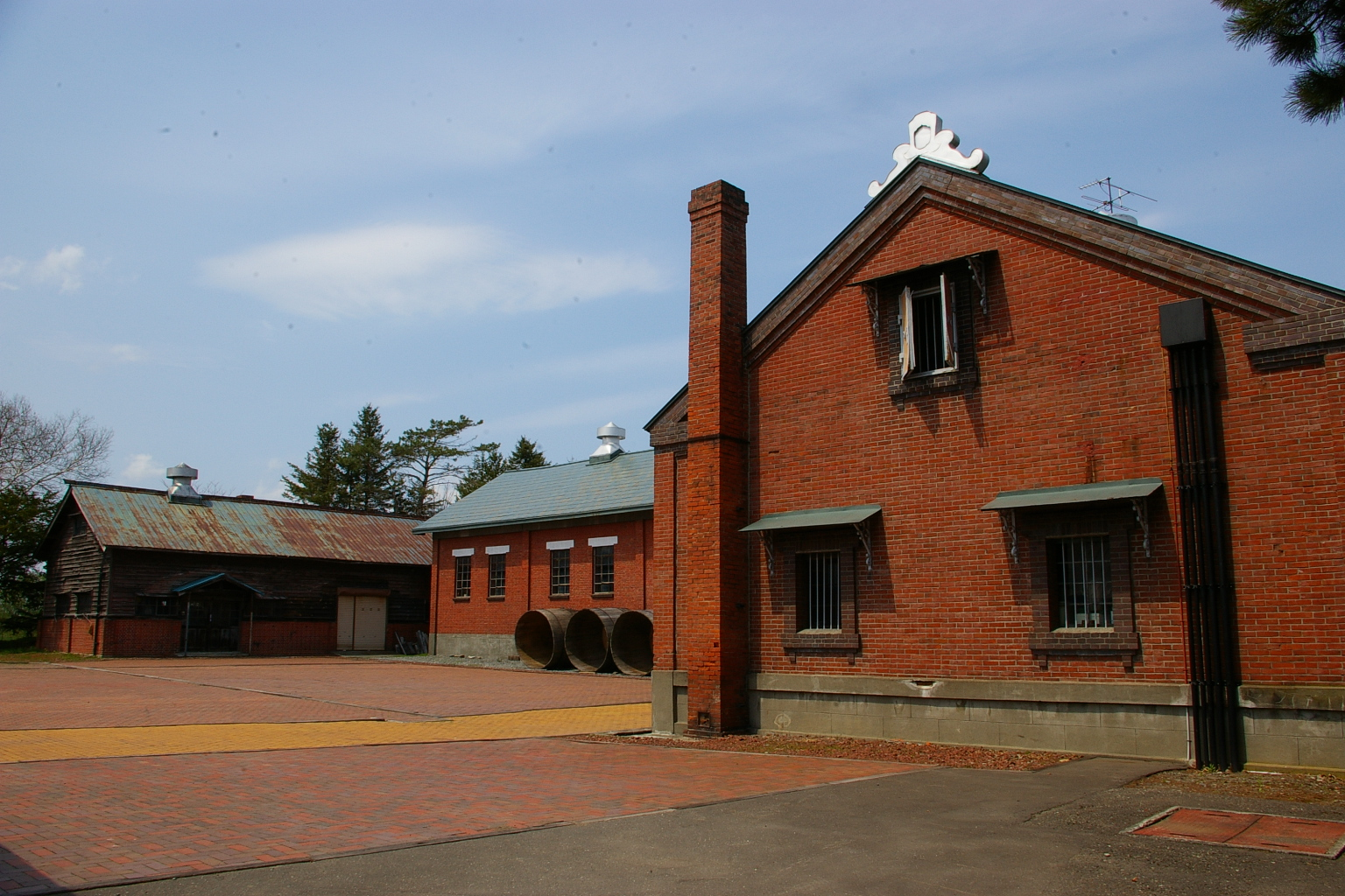 Appearance of the brick building warehouse of Kobayashi brewing which carries out the whereabouts to the Hokkaido Kuriyama town.